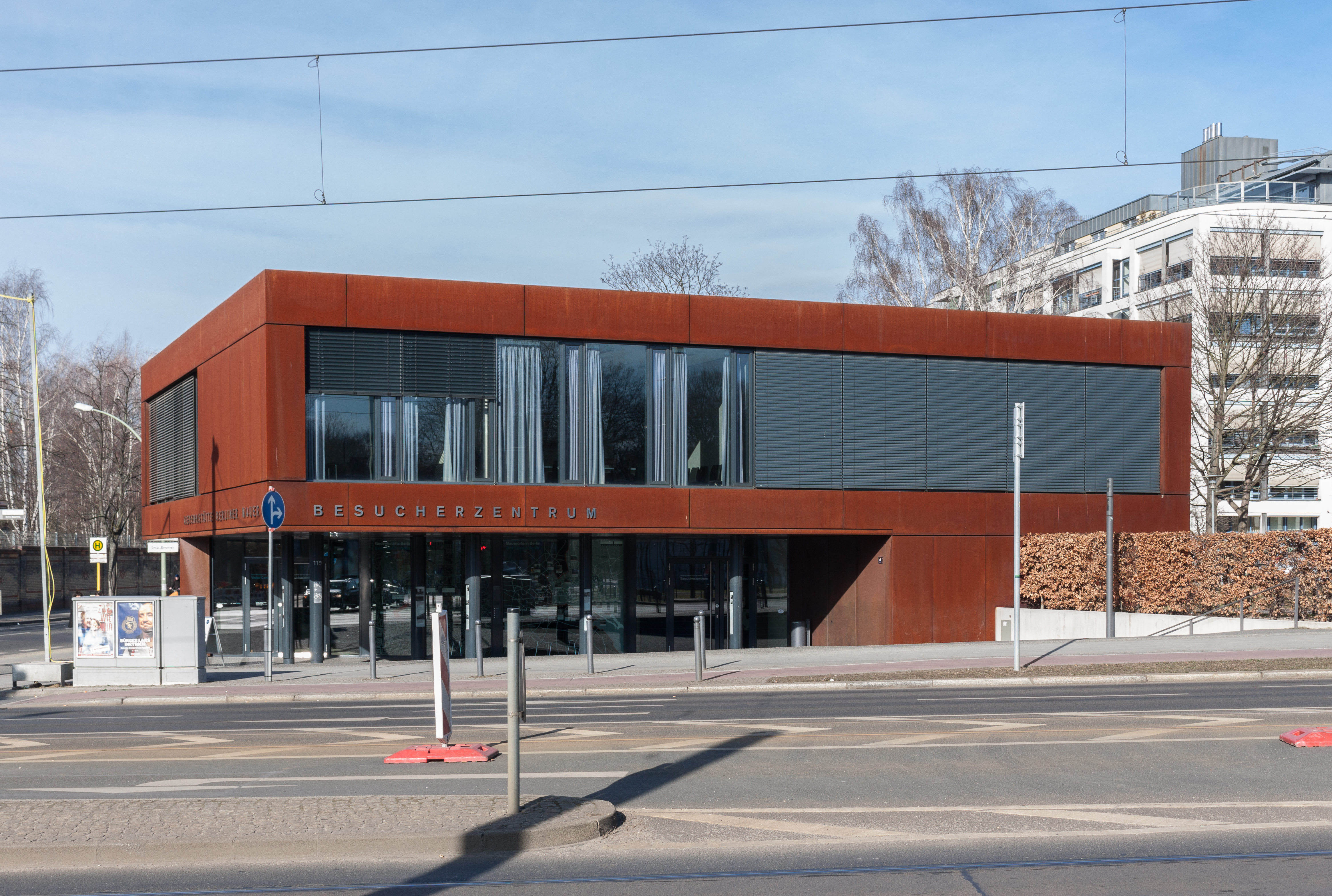 The visitor center of the Berlin Wall Memorial at Bernauer Strasse. The building was designed by Mola + Winkelmüller architects.